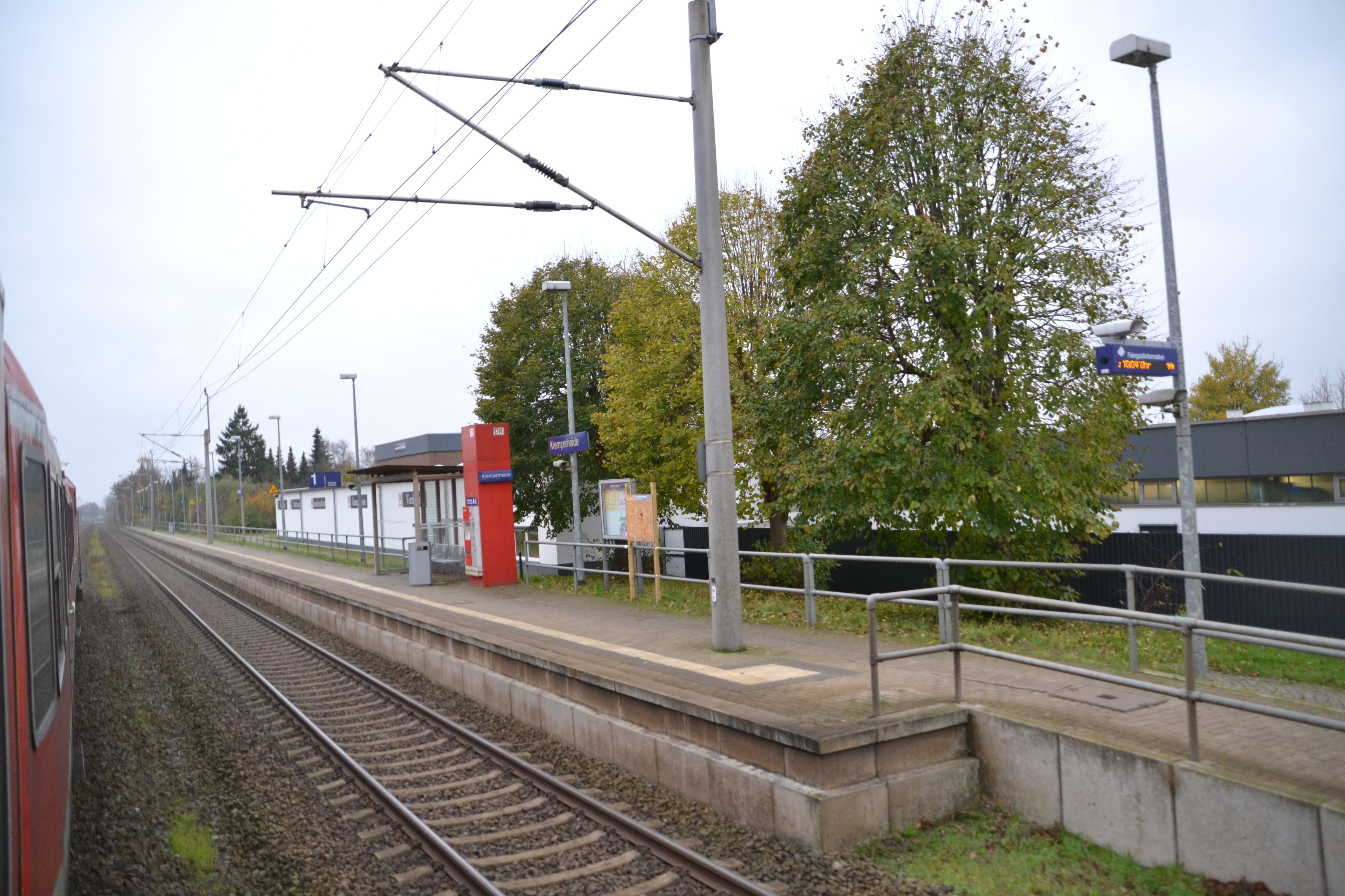 Train Station Kremperheide, Germany